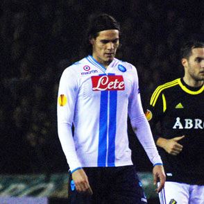 Cavani during AIK-Napoli, UEFA Europa League 2012-2013.